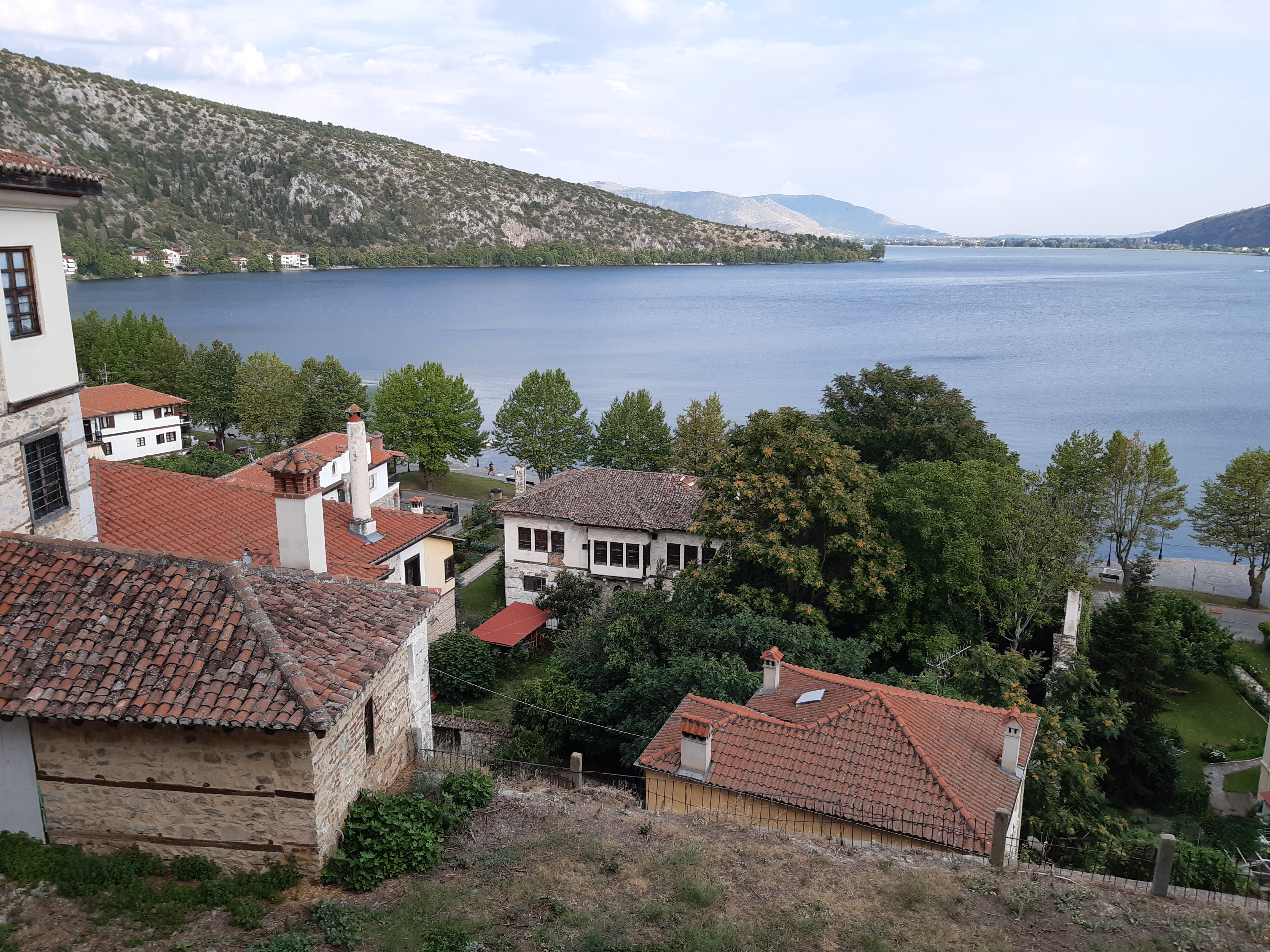 Doltso with Skoutaris Mansion